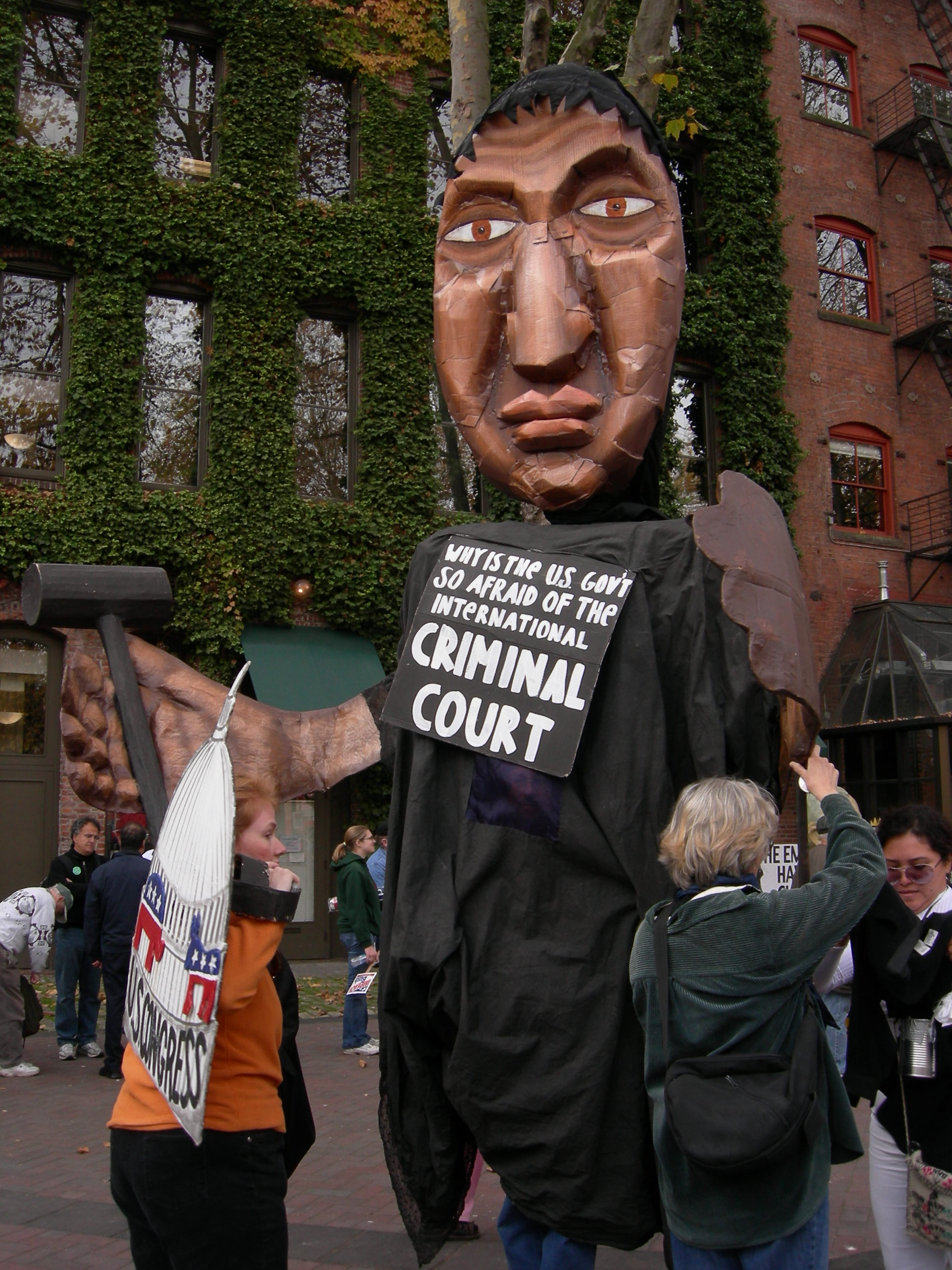 Anti-war rally, Occidental Park, Seattle, Washington, 27 October 2007. Sign on giant puppet says "Why is the U.S. gov't so afraid of the International Criminal Court"?